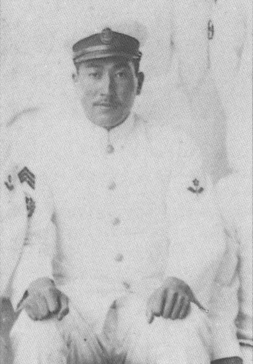 Imperial Japanese Navy fighter ace Watari Handa. In service in the Sino-Japanese and Pacific wars, he was credited with destroying 13 enemy aircraft.